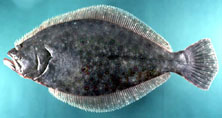 Summer flounder, or fluke